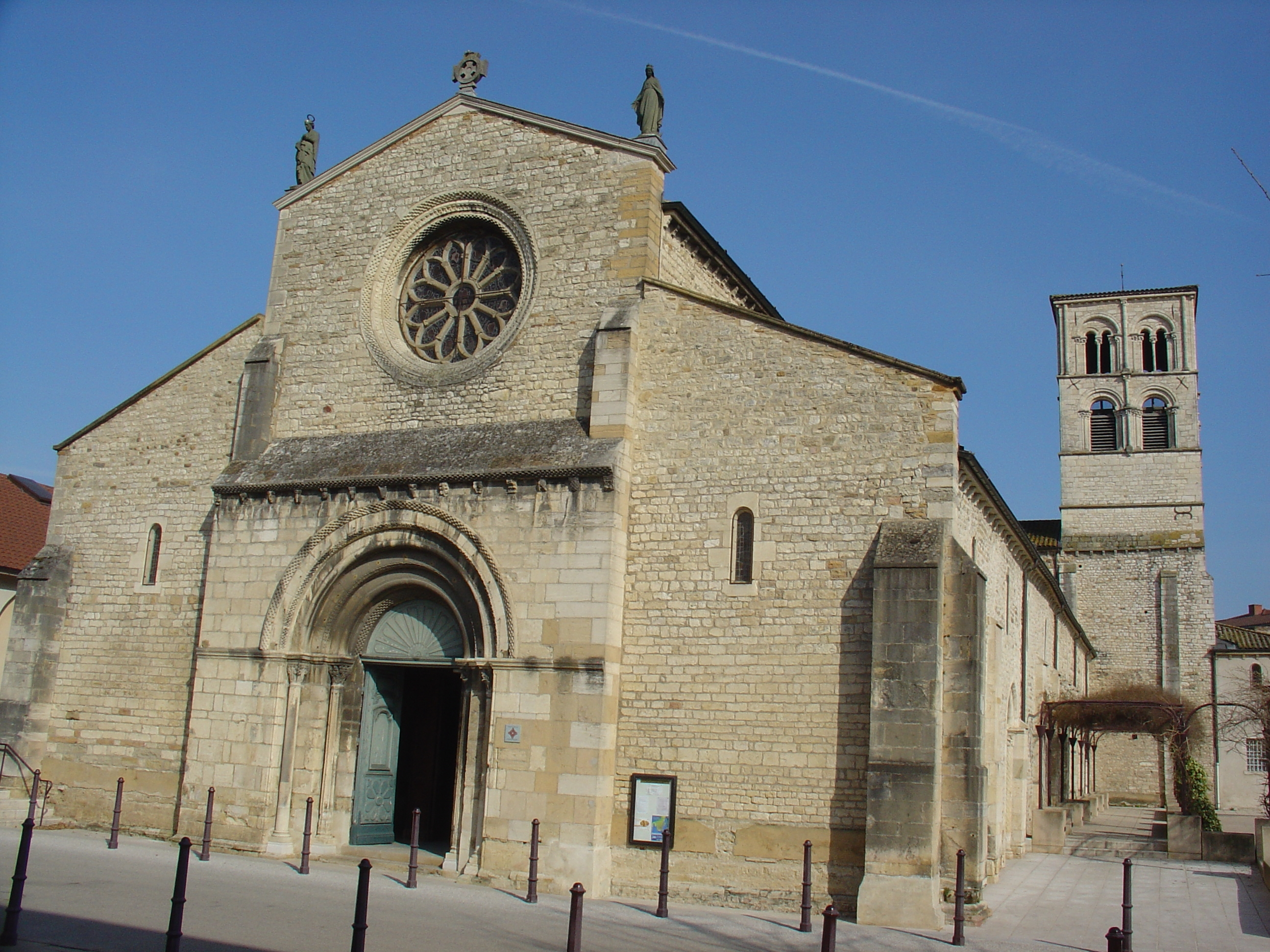 Church Notre-Dame in Belleville, Rhône (France).